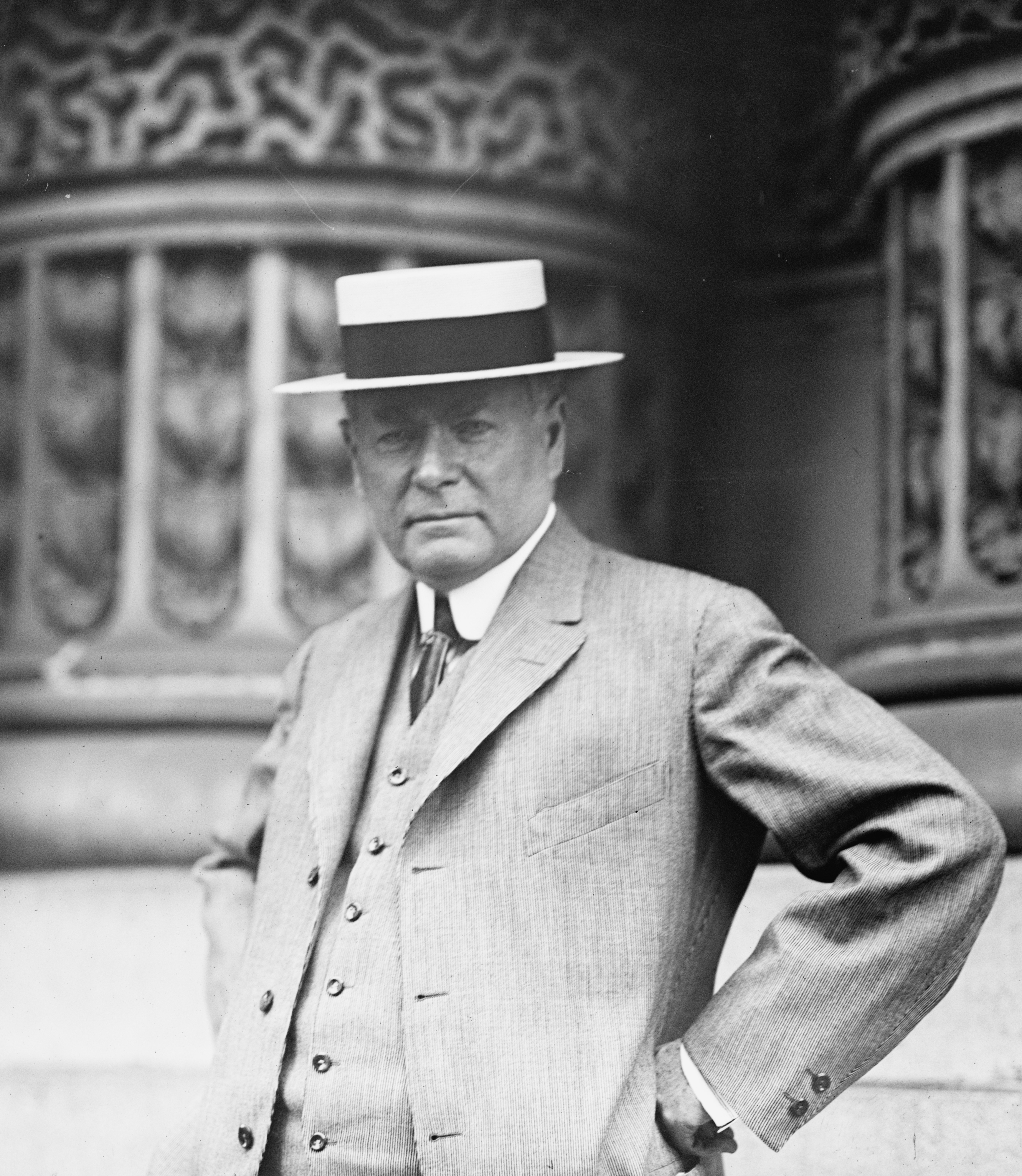 Title: DEMOCRATIC NATIONAL CONVENTION. NORMAN E. MACK OF BUFFALO Abstract/medium: 1 negative : glass ; 5 x 7 in. or smaller